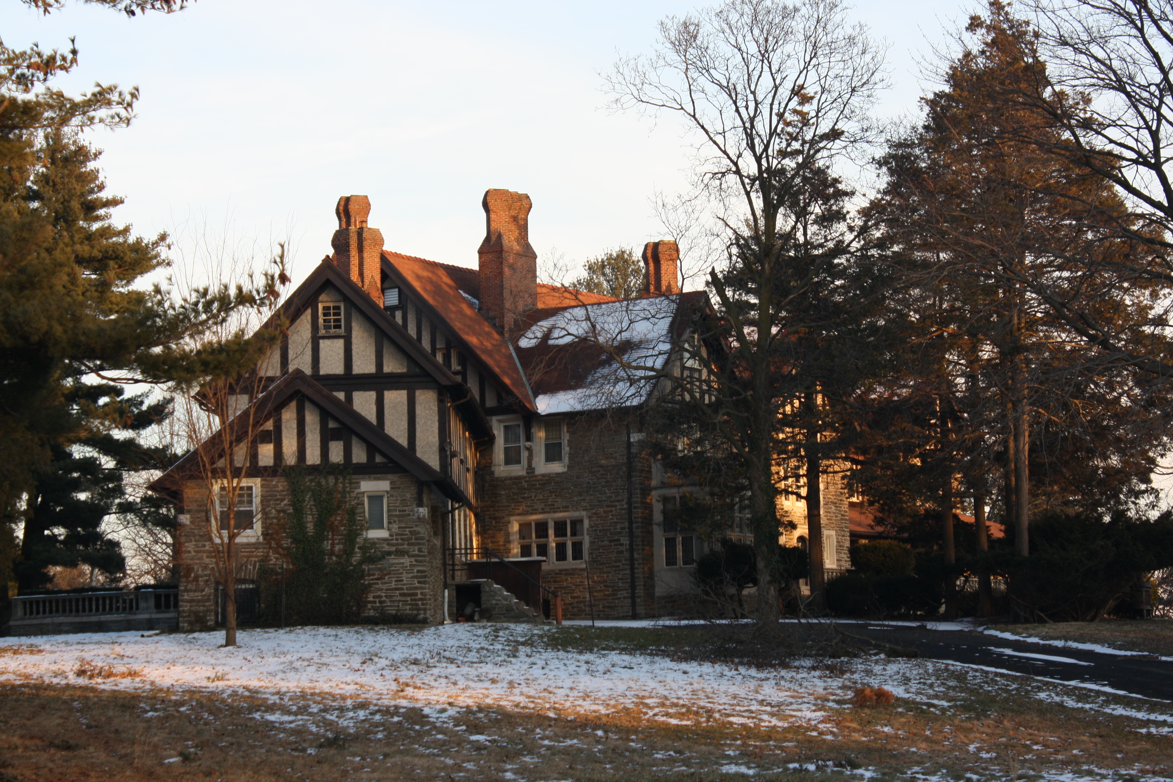 Chelten House, a mansion on Elkins Estate located in Elkins Park, Montgomery County, Pennsylvania. In 1896 Elkins commissioned Horace Trumbauer to build a home on the estate for his son, George W. Elkins in 1896. This mansion, Chelten House, was built in the Elizabethan style. Northern wing.